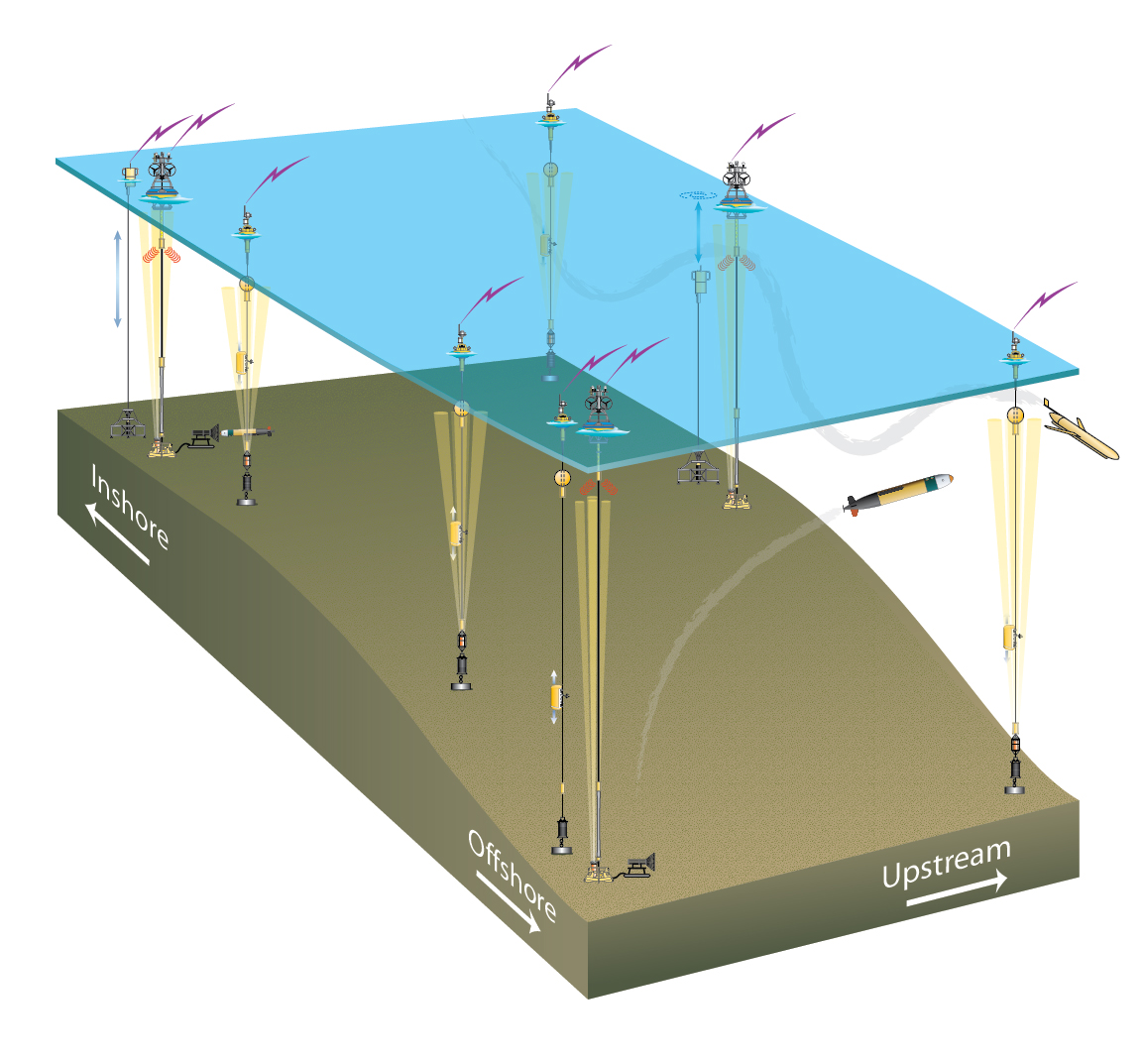 Conceptual Design of the Pioneer Array. Credit: Woods Hole Oceanographic Institution. Disclaimer: All data are subject to revision without notice.